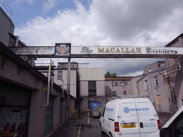 A picture of the Macallan Distillery